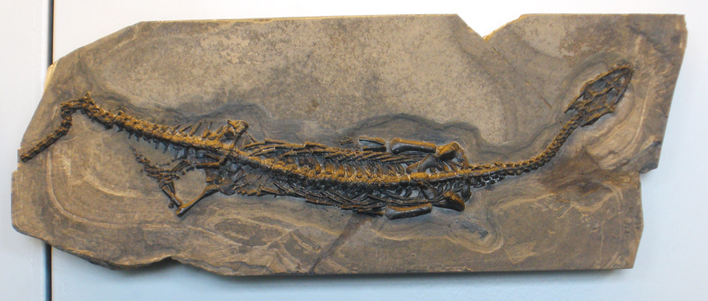 fossil neusticosaurus